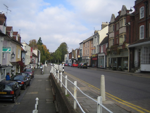 Hemel Hempstead: High Street The northern end of the old town of Hemel.